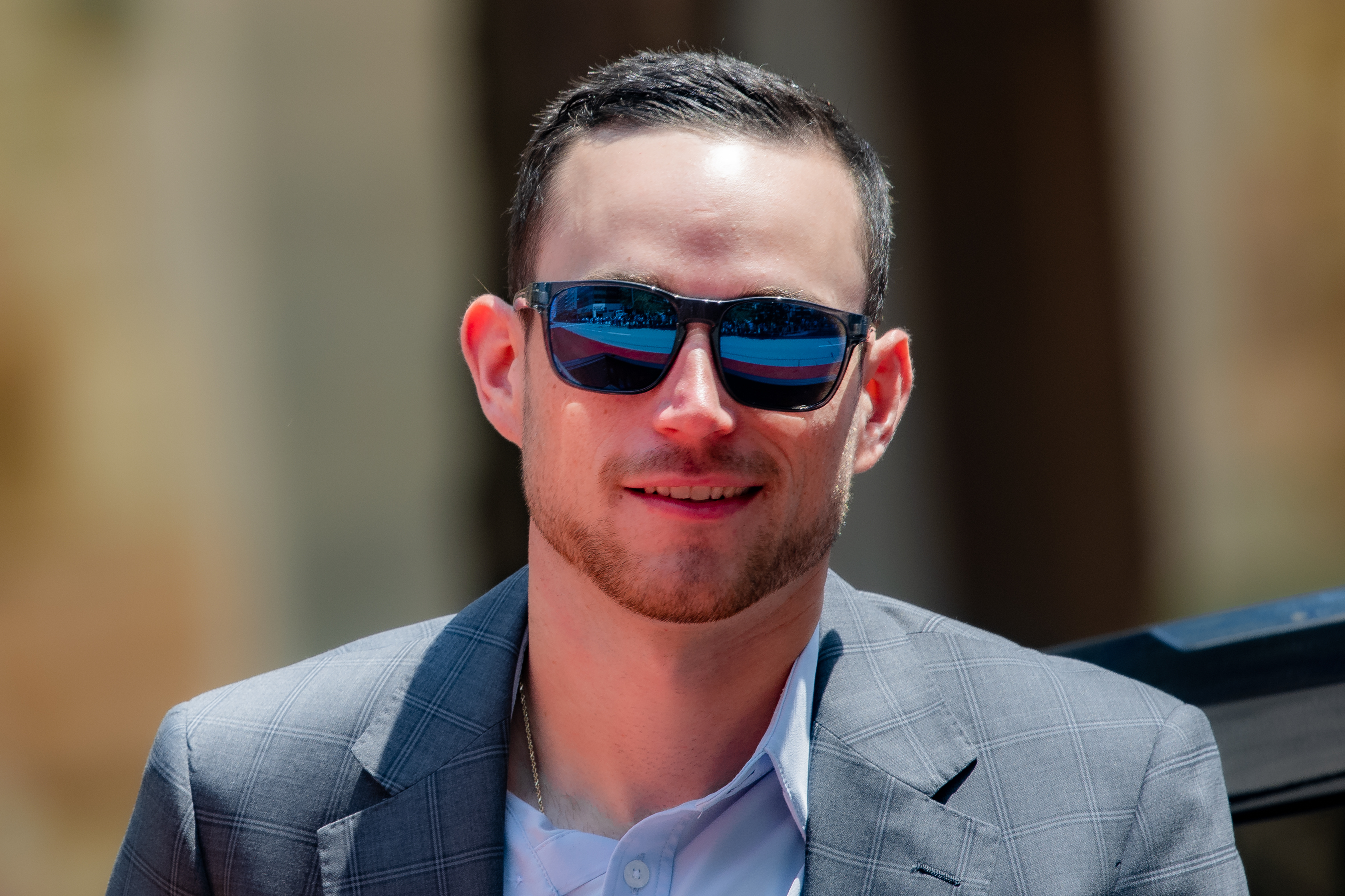 Brandon Lowe during the 2019 Major League Baseball All-Star Parade in Cleveland